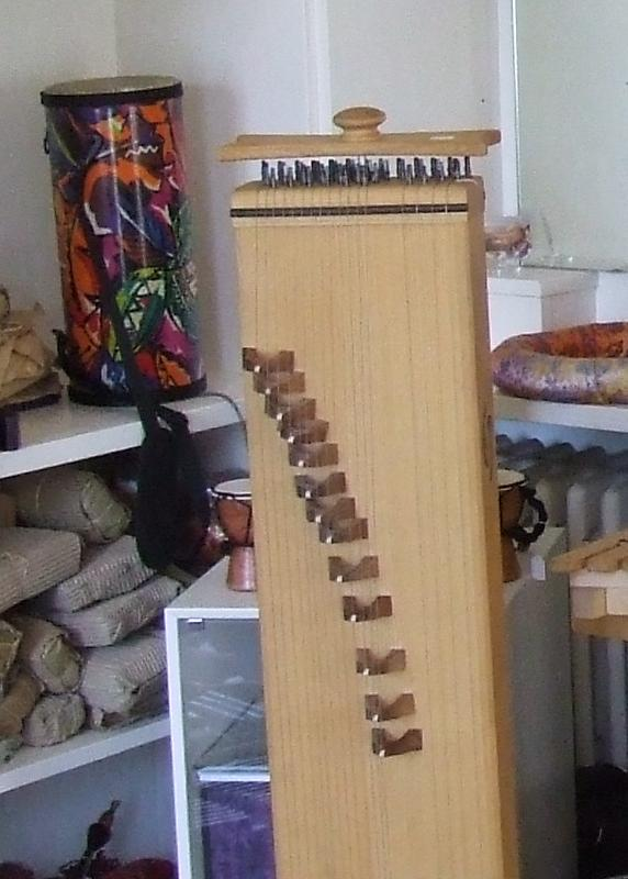 A Kotamo.